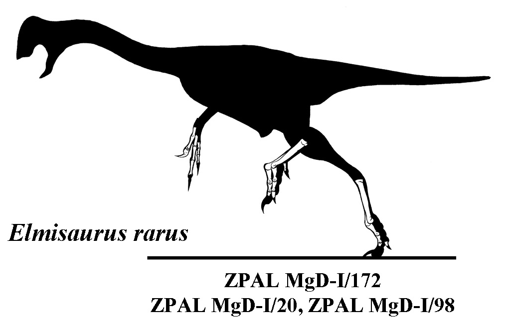 Skeletal reconstruction of Elmisaurus rarus.